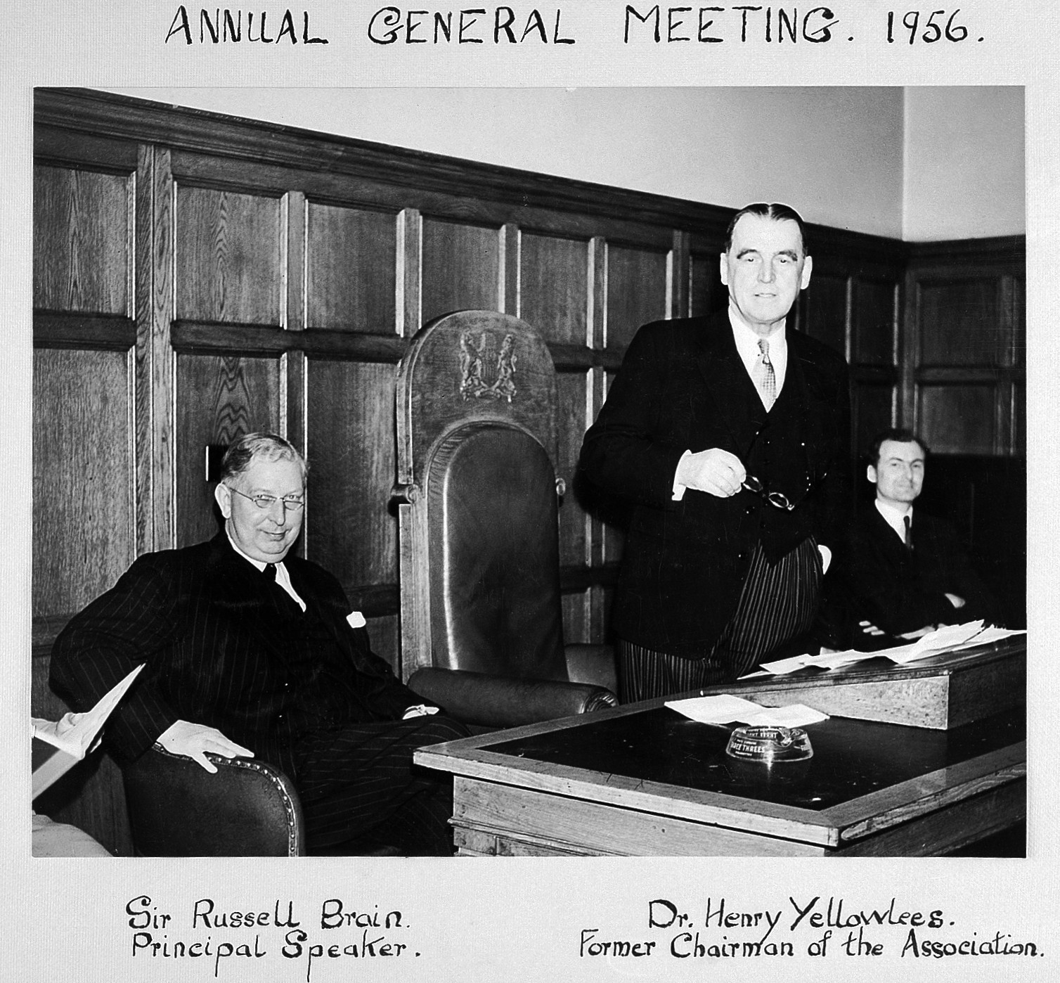 Mental After Care Association AGM, 1956. Sir Russell Brain and Dr. Henry Yellowlees. Archives & Manuscripts